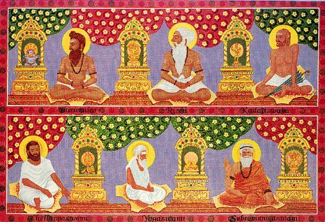 Picture depicting the lineage of spiritual masters.